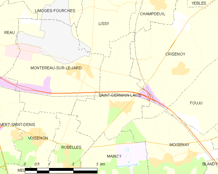 Map of French municipality Saint-Germain-Laxis